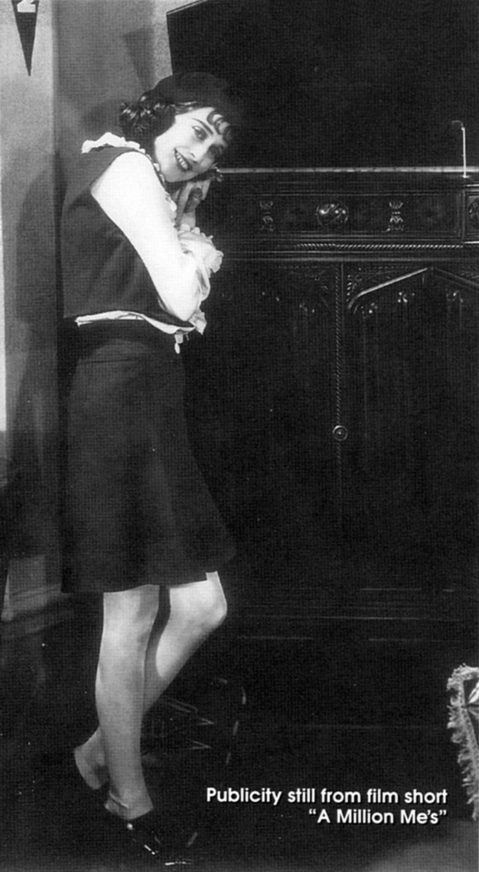 A publicity portrait of singer and actress Lee Morse (now deseased) from the 1930 film A Million Me's.